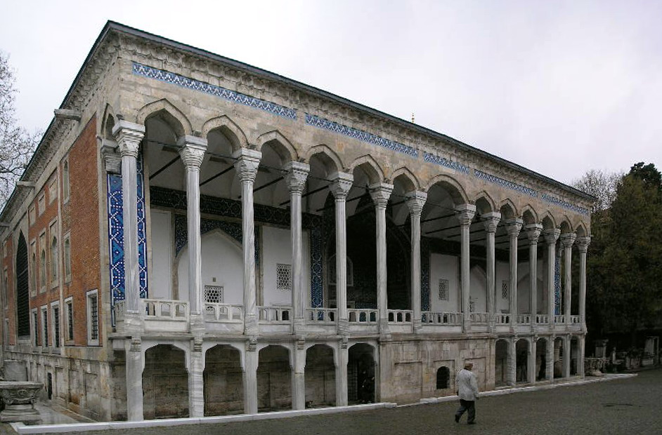 Tiled Pavilion (museum) in Istanbul.